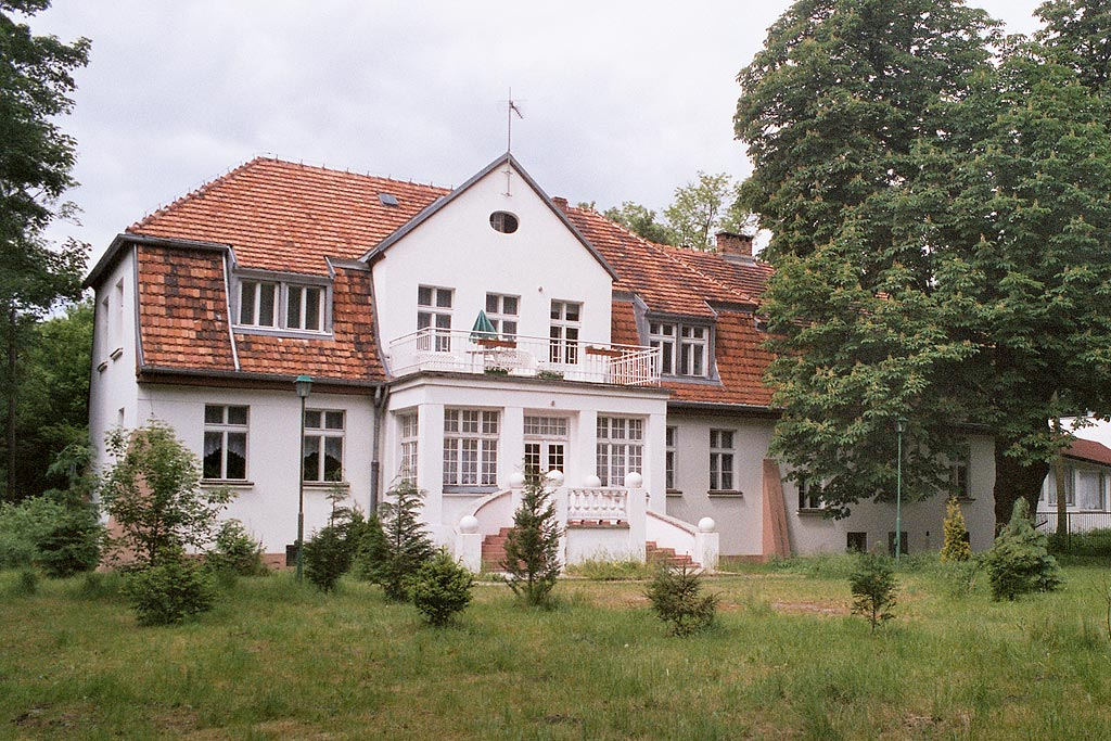 Toruń, manor in Bielany district, then residence of mayors of Toruń, nowadays a hospice